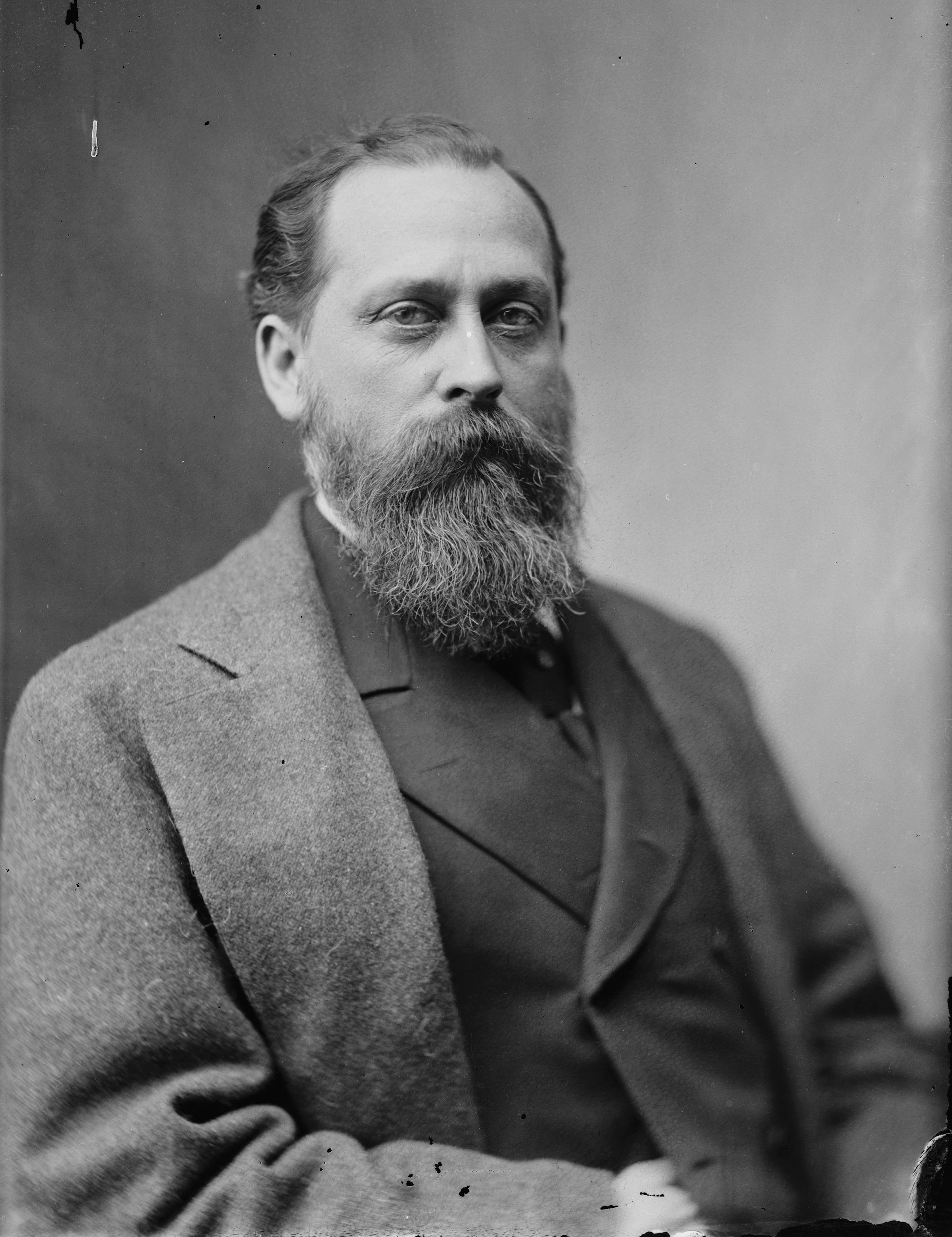 Alfred Moore Waddell. Library of Congress description: "Waddell, Hon. Alfred Moore of N.C. Delegate to Constitutional Union National Convention at Baltimore - 1860 (Bell & Everett) Lt. Col. of 3rd Cavalry, 41st N.C. Inf.".